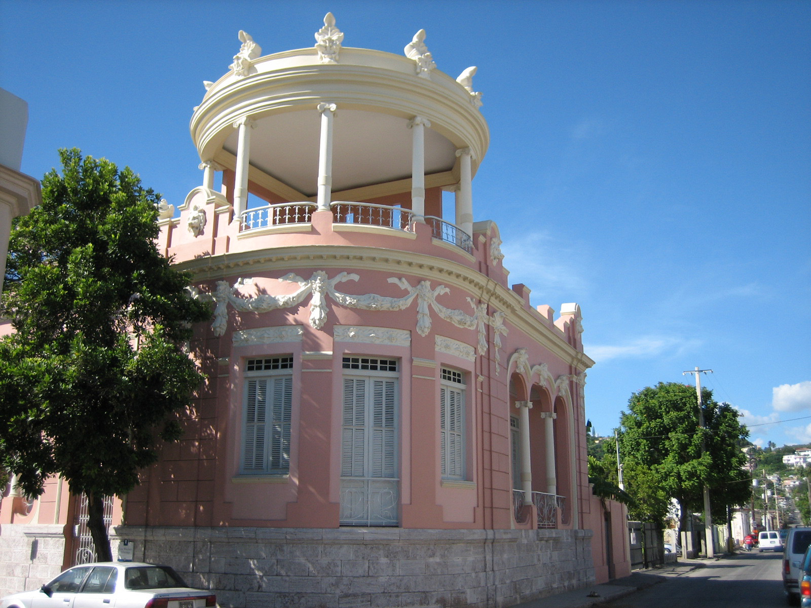 The Casa Wiechers-Villaronga, at the Corner of Reina and Mendez Vigo streets, in Ponce, Puerto Rico. Formerly the Weichert-Villaronga Residence, it now houses the Museo de la Arquitectura Ponceña (Ponce Architecture Museum).